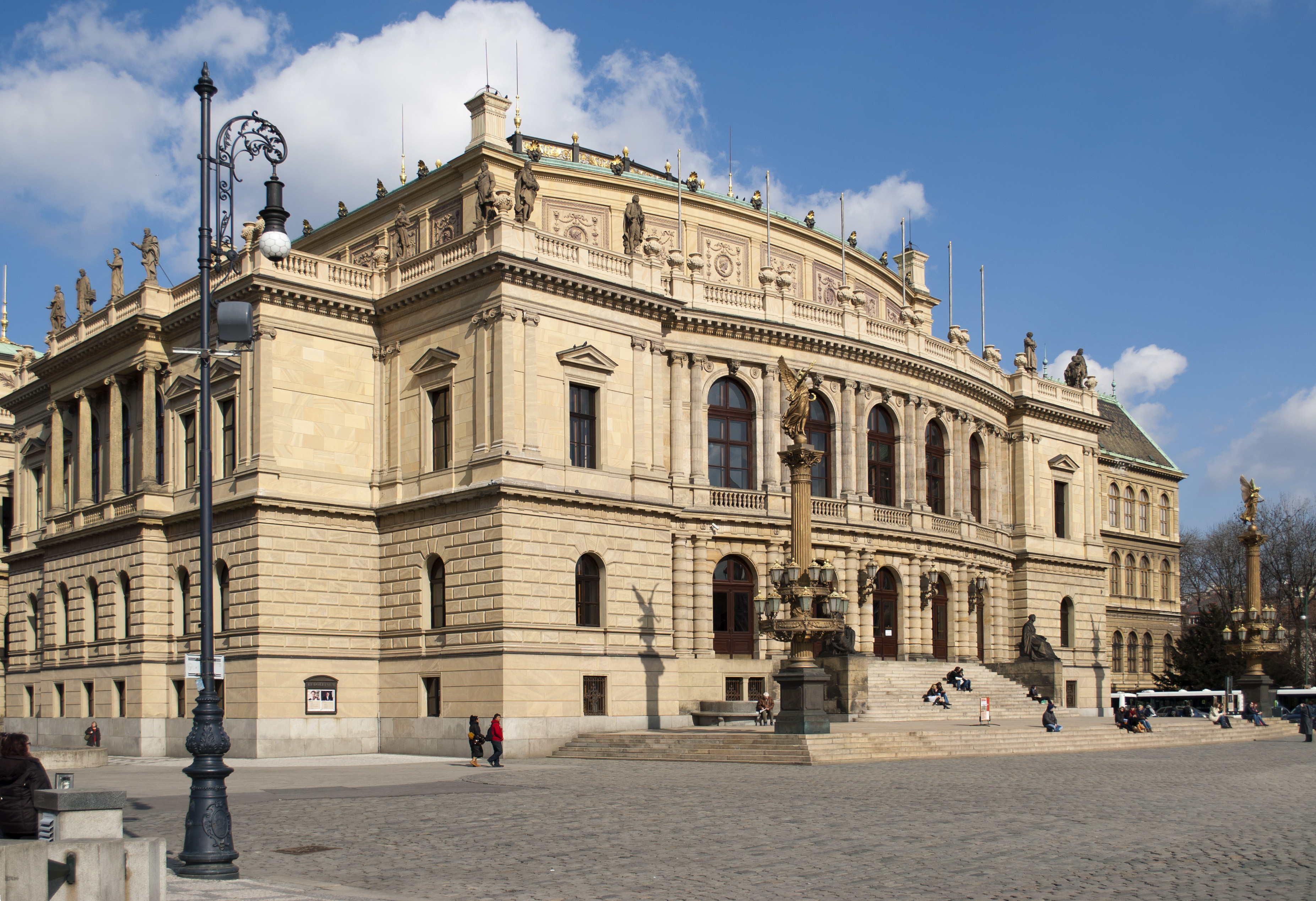 Rudolfinum